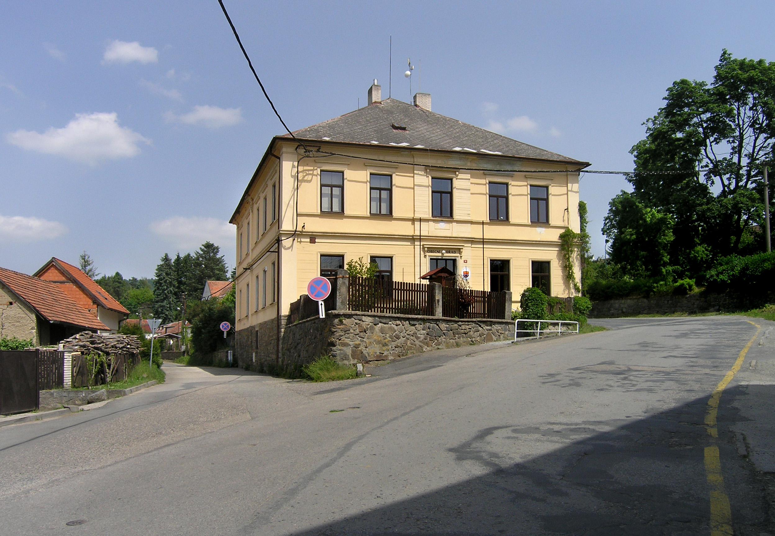 Municipal office in Krhanice, Czech Republic